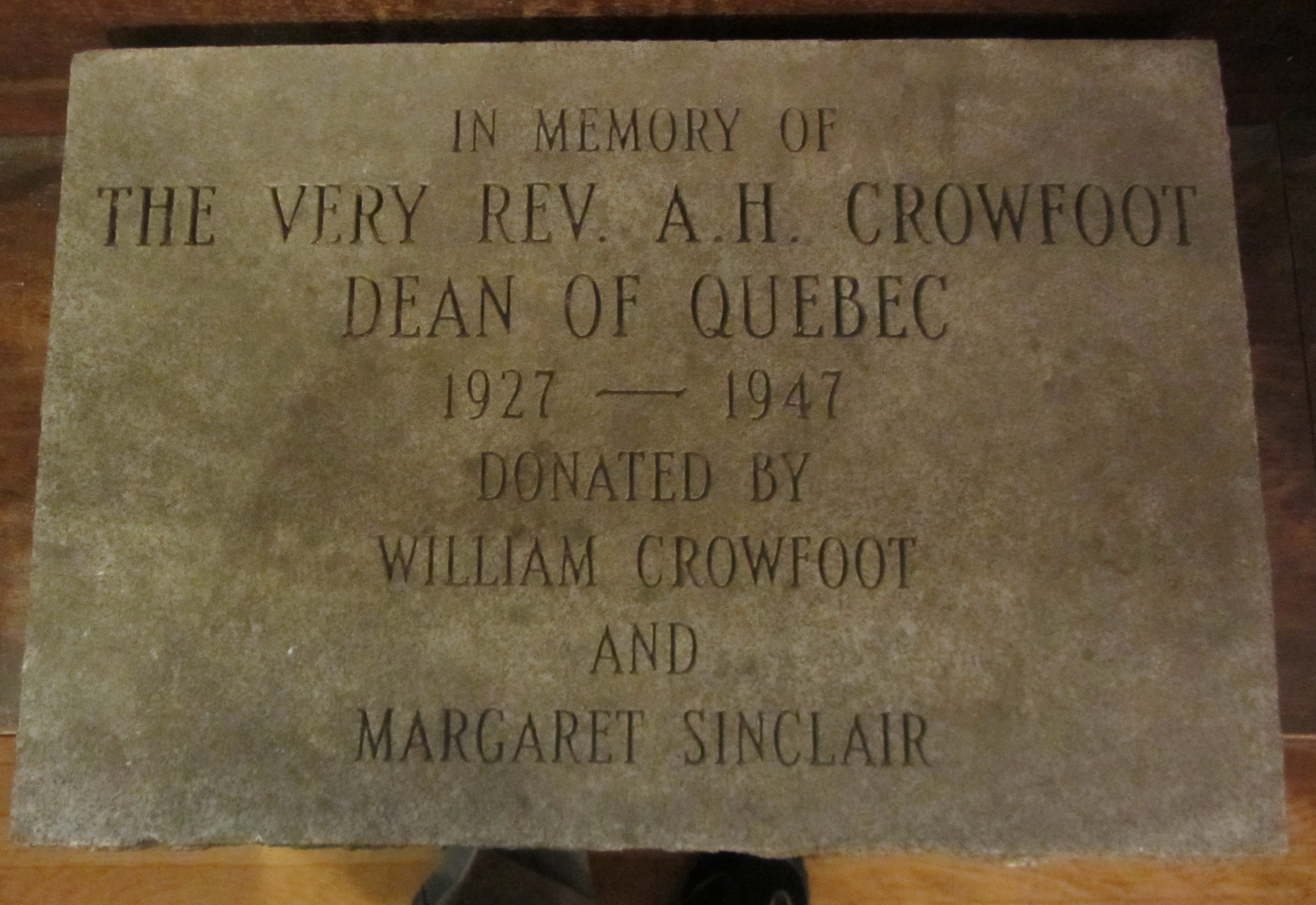 Photograph of the Alfred Henchman Crowfoot, Memorial Stone, Cathedral of the Holy Trinity, Quebec City, Quebec, Canada